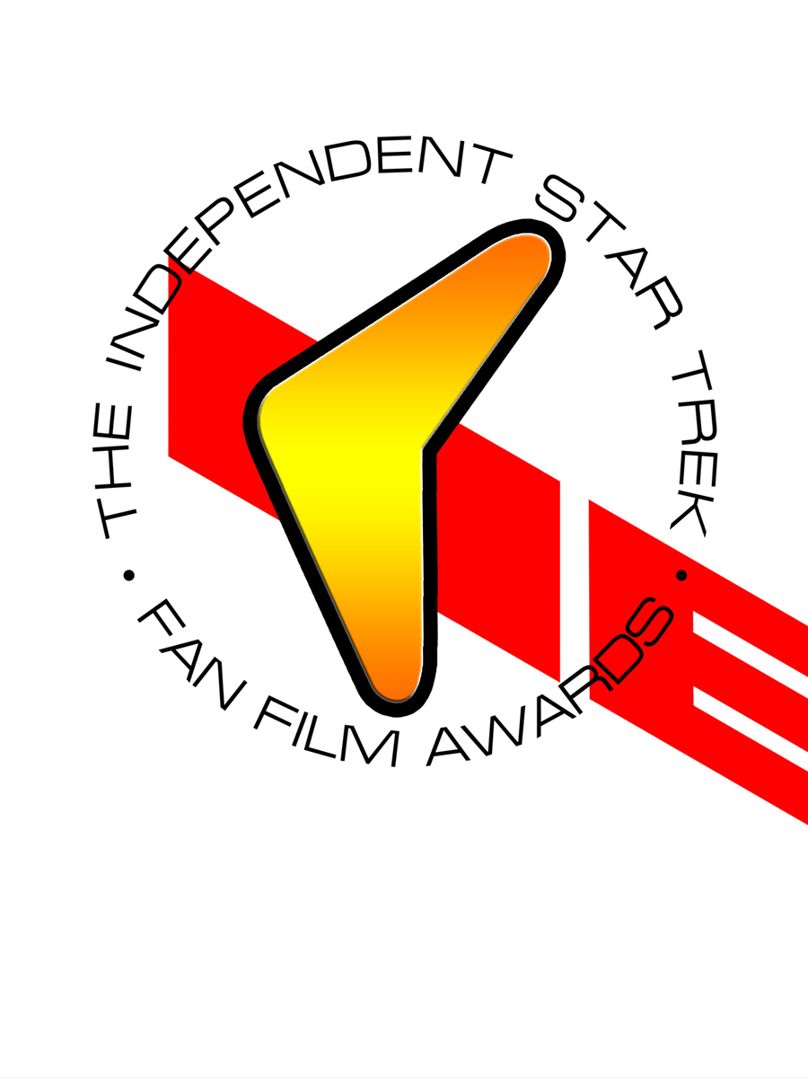 This is the logo for the Independent Star Trek Fan Film Awards, used from 2015 to 2017. It is comprised of a yellow and black arrowhead graphic device centered over a diagonal red stylized stripe with the name of the awards set in a full circle around the arrowhead. This logo was replaced in 2017 when the name of the awards was changed to "The Bjo Awards" and a new logo was created to reflect that change.